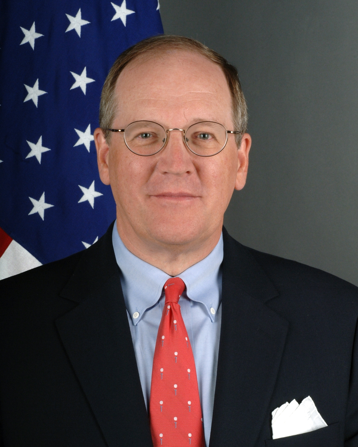 Official photo of Ambassador Michael C. Polt (as of December 7, 2009); Appointment as U.S. Ambassador to Republic of Estonia.